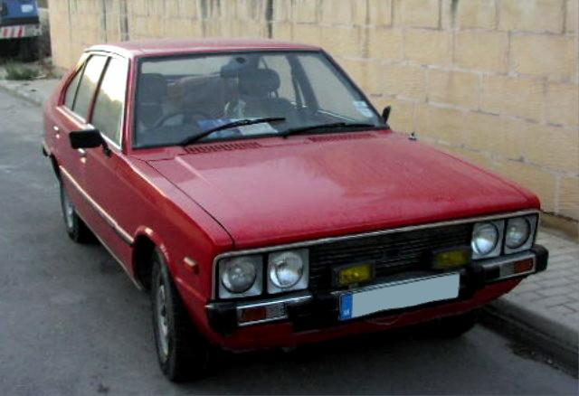 Hyundai Pony 1st Generation